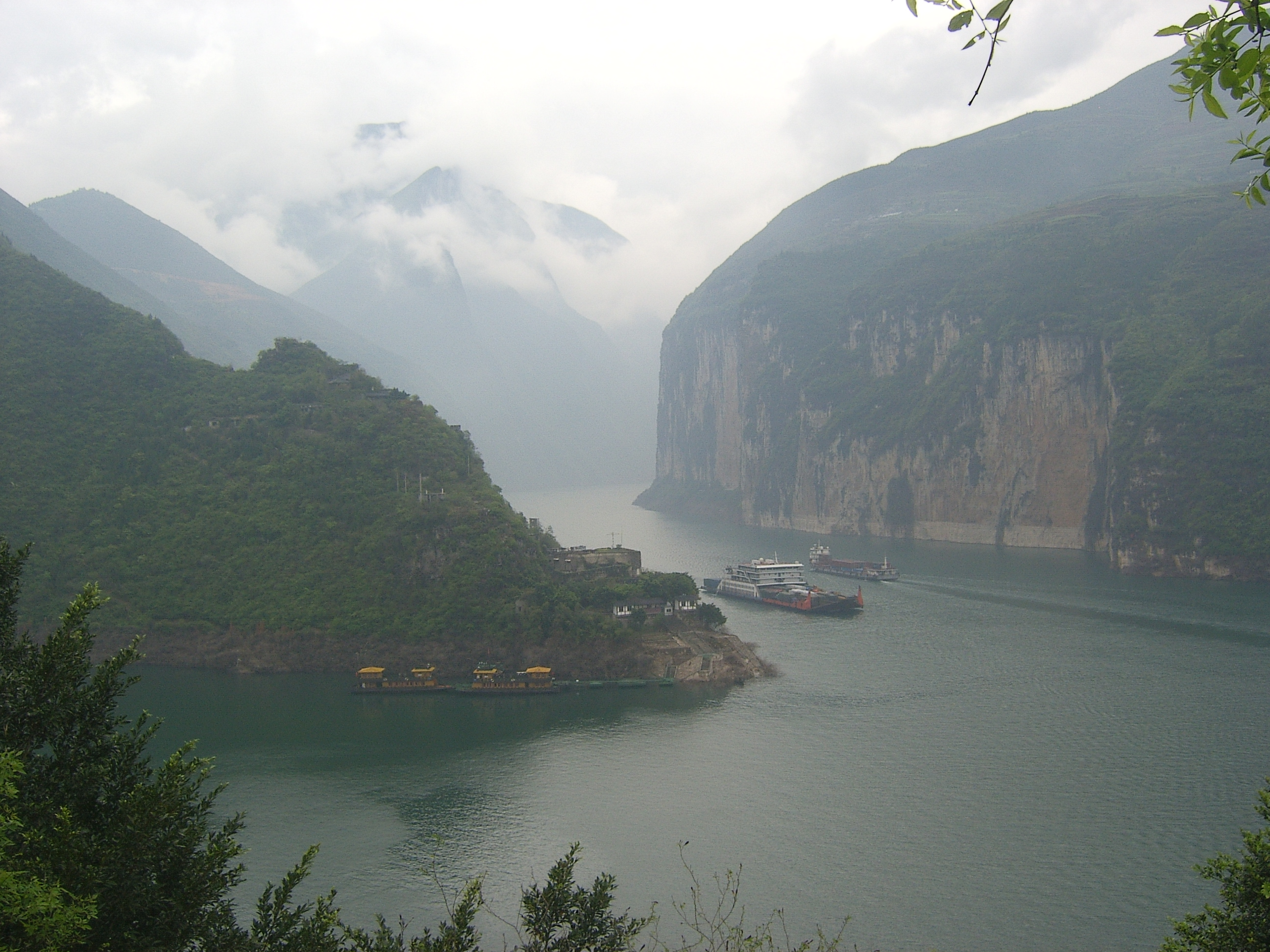 The Qutang Gorge along the Yangtze river. This photo has been taken by Mr.Chen Hualin.